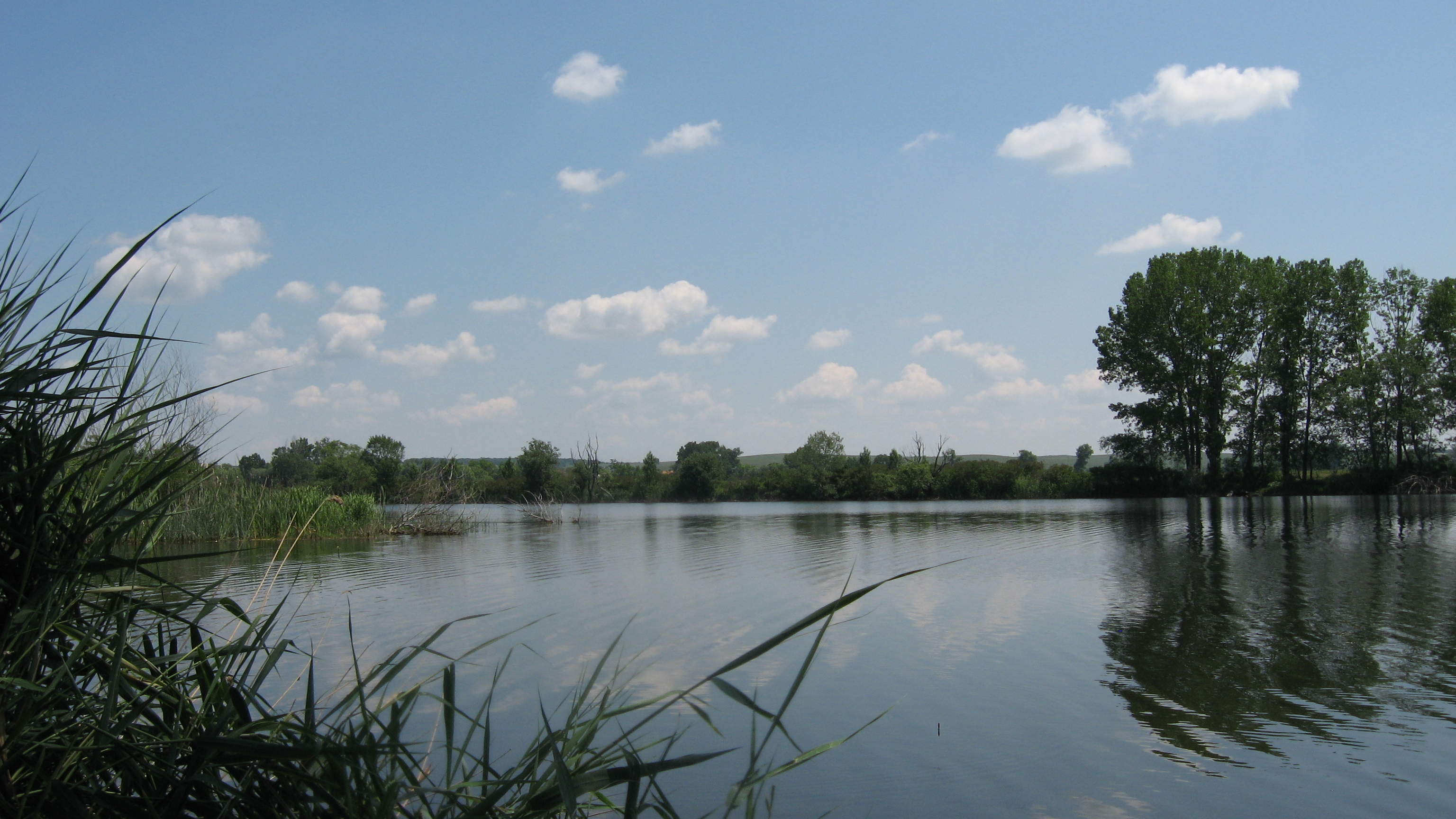 Protected area „Zlato Pole“, Zlatopole, Bulgaria